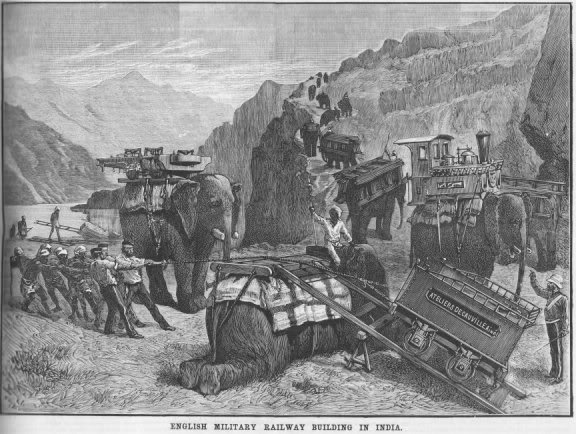 'English Military Railway Building in India' (Decauville Railway at Bolan Pass)